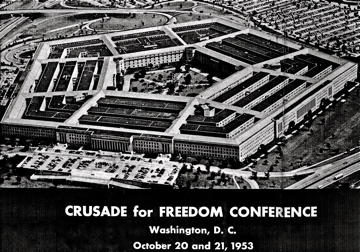 Notice of Crusade for Freedom conference at the Pentagon